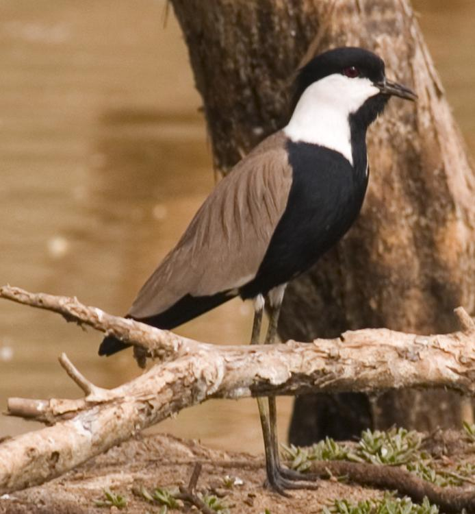 Spur-winged Plover Vanellus spinosus, I took this photo at Parc Forestier de Hann, Dakar, Senegal for Wikipedia.